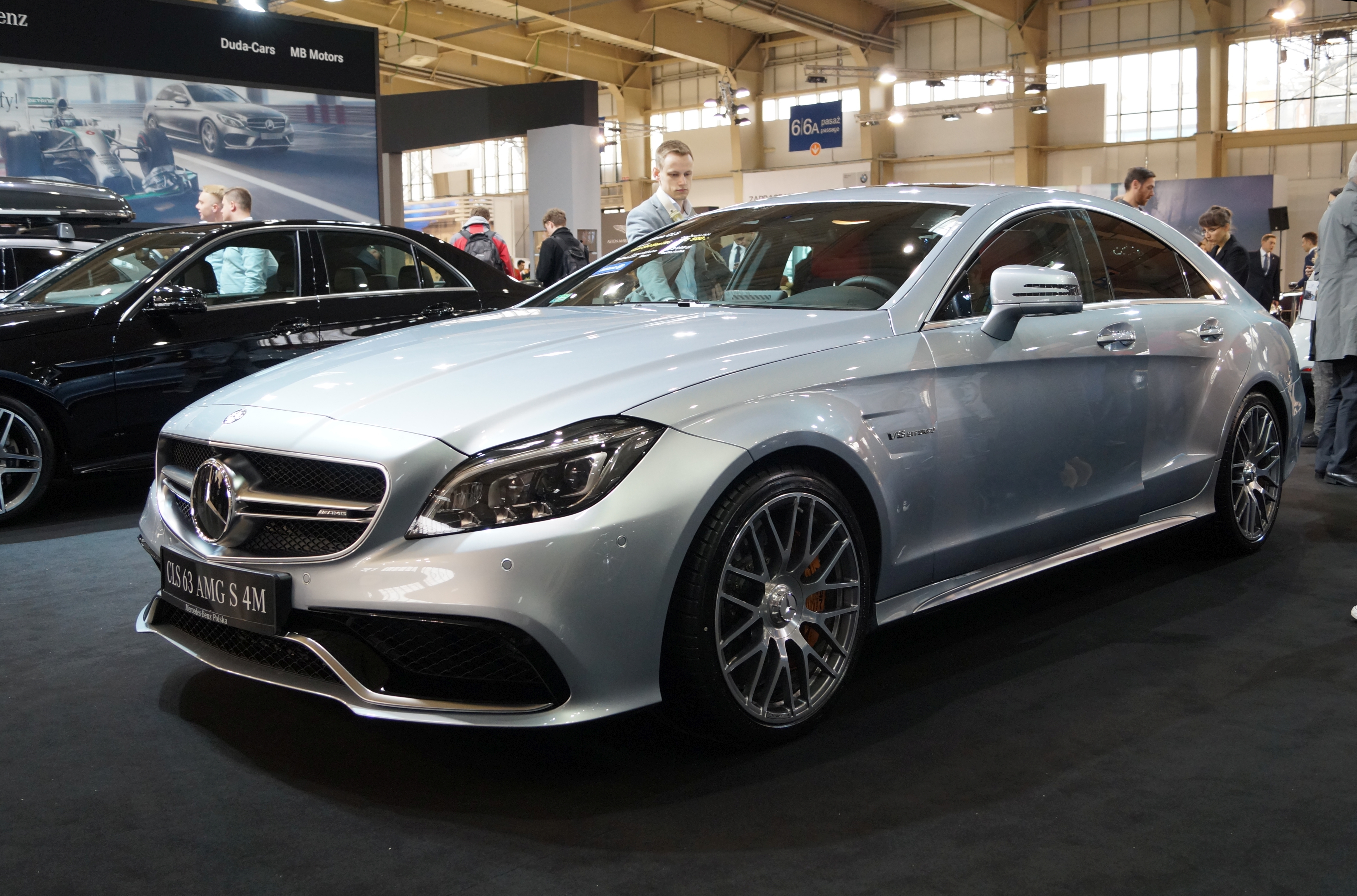 The making of this document was supported by Wikimedia Polska Association, within Wikigrant no. WG 2015-19. English | polski | +/− Mercedes CLS 63 AMG S 4M na Motor Show Poznań 2015